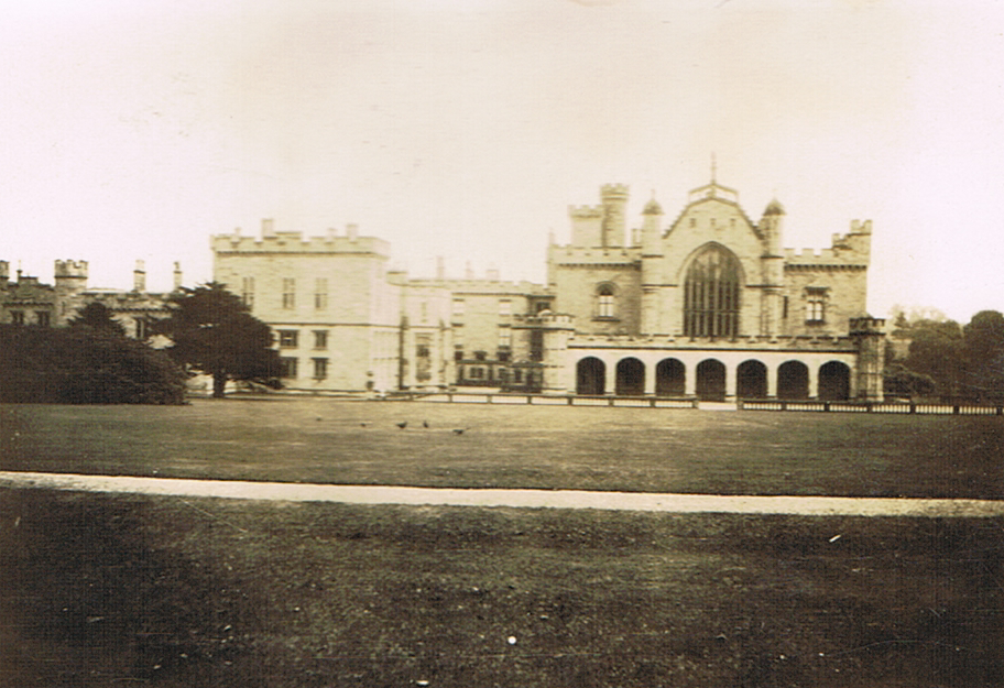 Main entrance of Lambton Castle, taken from the Journal of Harold M. Monck.